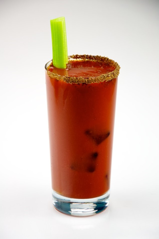 Bloody Mary Coctail with celery stalk.